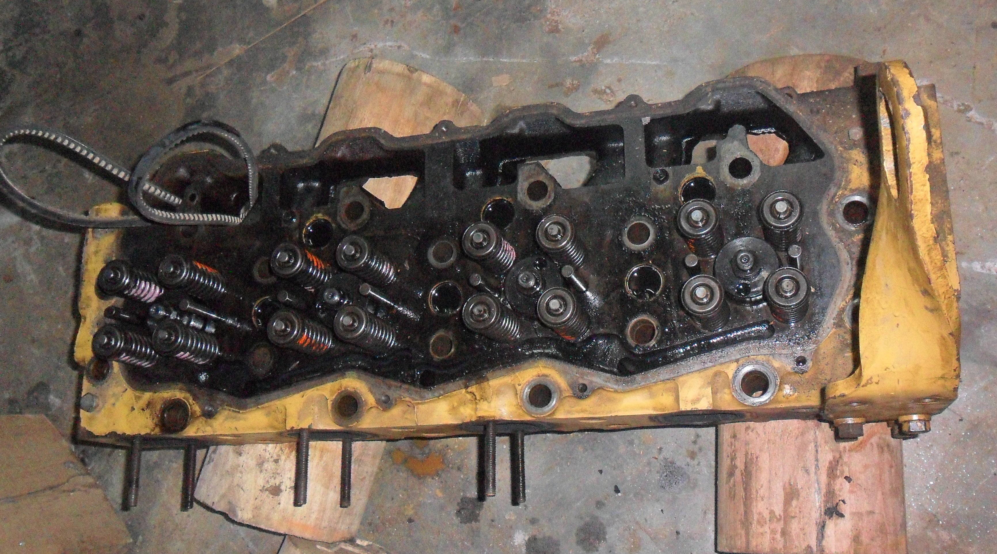 Cylinder head of a Caterpillar engine